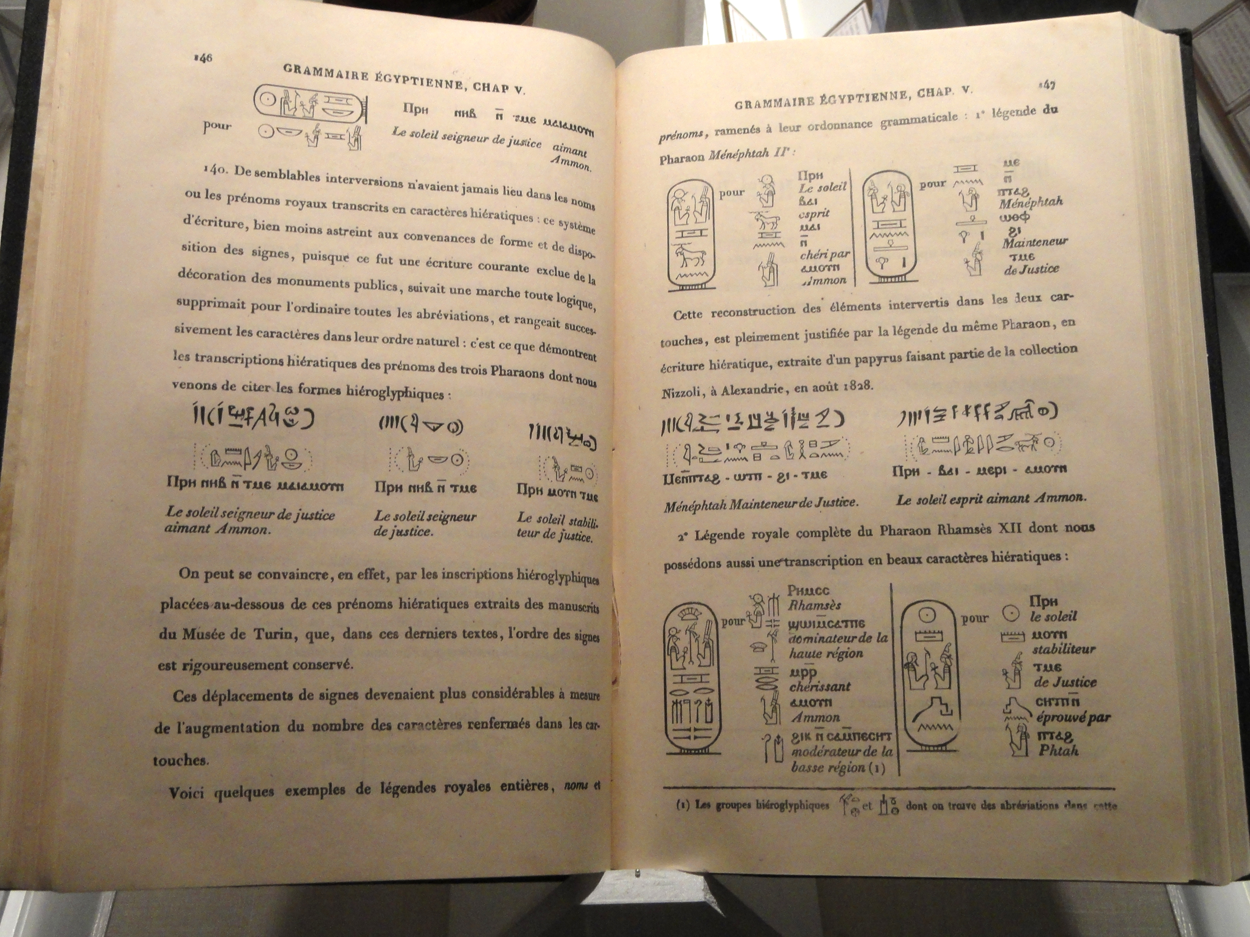 Exhibit in the National Cryptologic Museum, Fort Meade, Maryland, USA. All items in this museum are unclassified; items created by the United States Government are not subject to copyright restrictions. Grammaire egyptienne was written by Jean-François Champollion, edited by Jacques-Joseph Champollion, and published from 1836 to 1843.